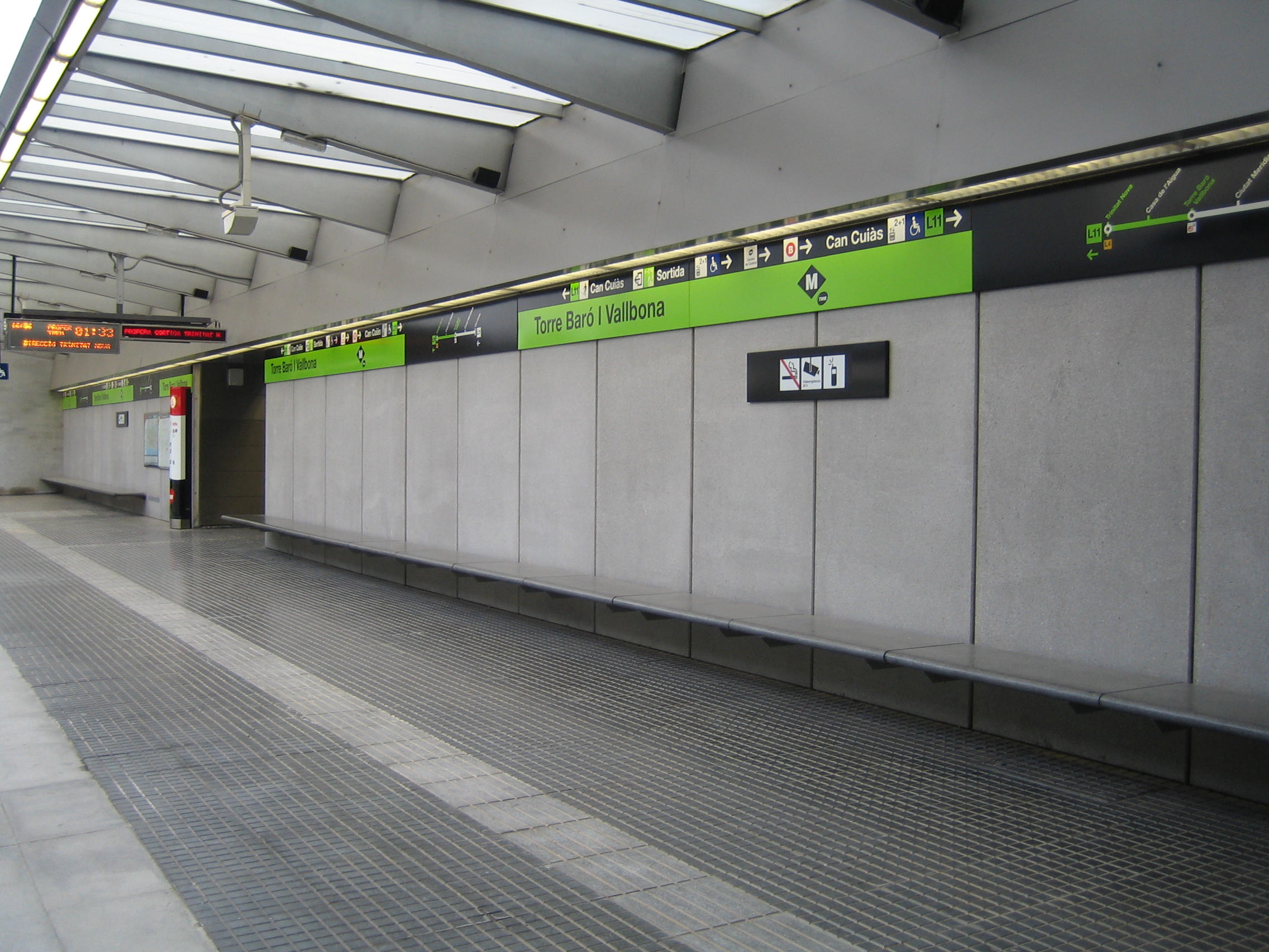 Barcelona's metro station Torre Baró I Vallbona